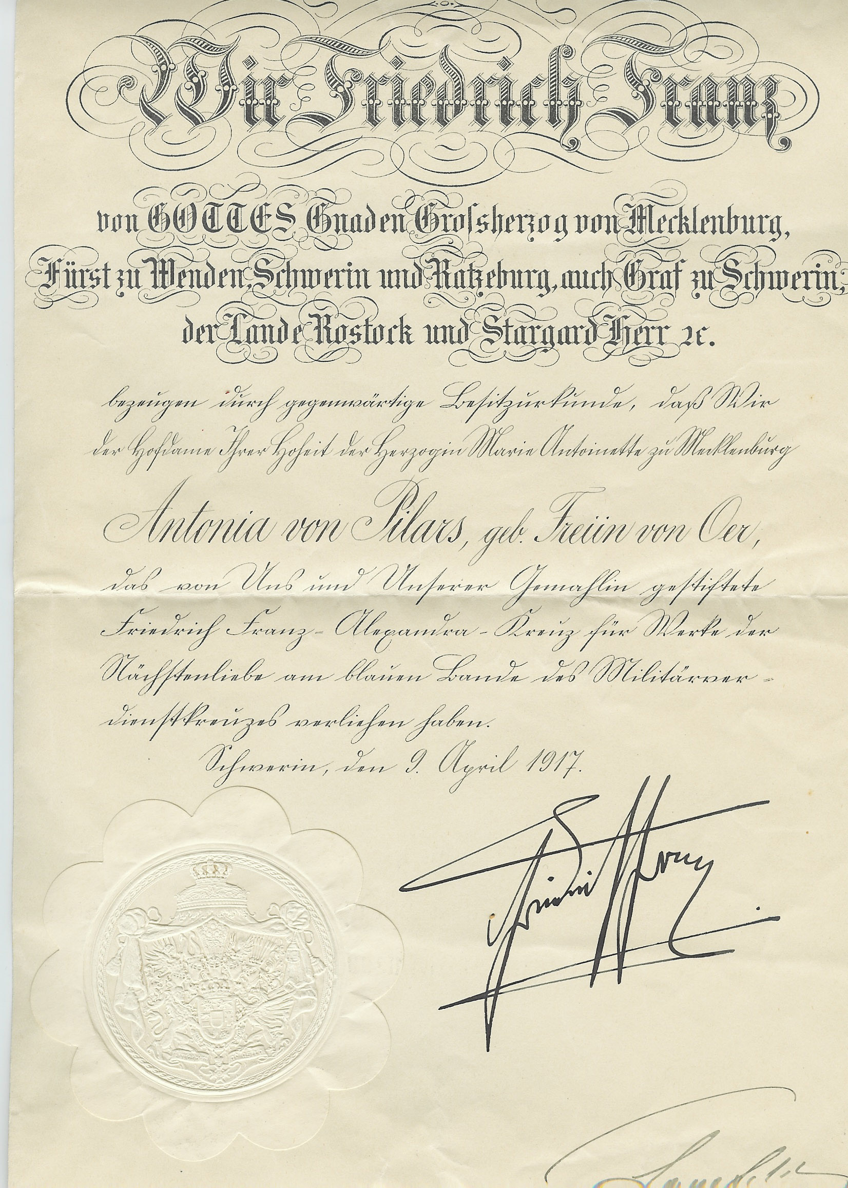 Certificate for a decoration of the Grand Duchy of Mecklenburg-Schwerin, Germany: "We Frederick Francis, by GOD's grace Grand Duke of Mecklenburg, Prince of Wends, Schwerin and Ratzeburg, also Count at Schwerin, Lord of the lands of Rostock and Stargard, etc. testify by this deed of ownership that We awarded to Antonia von Pilars, née Baroness Oer, lady-in waiting of Her Highness Duchess Marie Antoinette of Mecklenburg, the Frederick-Francis-Alexandra Cross for Deeds of Charity as created by Us and Our spouse on the blue ribbon of the Cross of Military Merit. Schwerin, 9 April 1917"